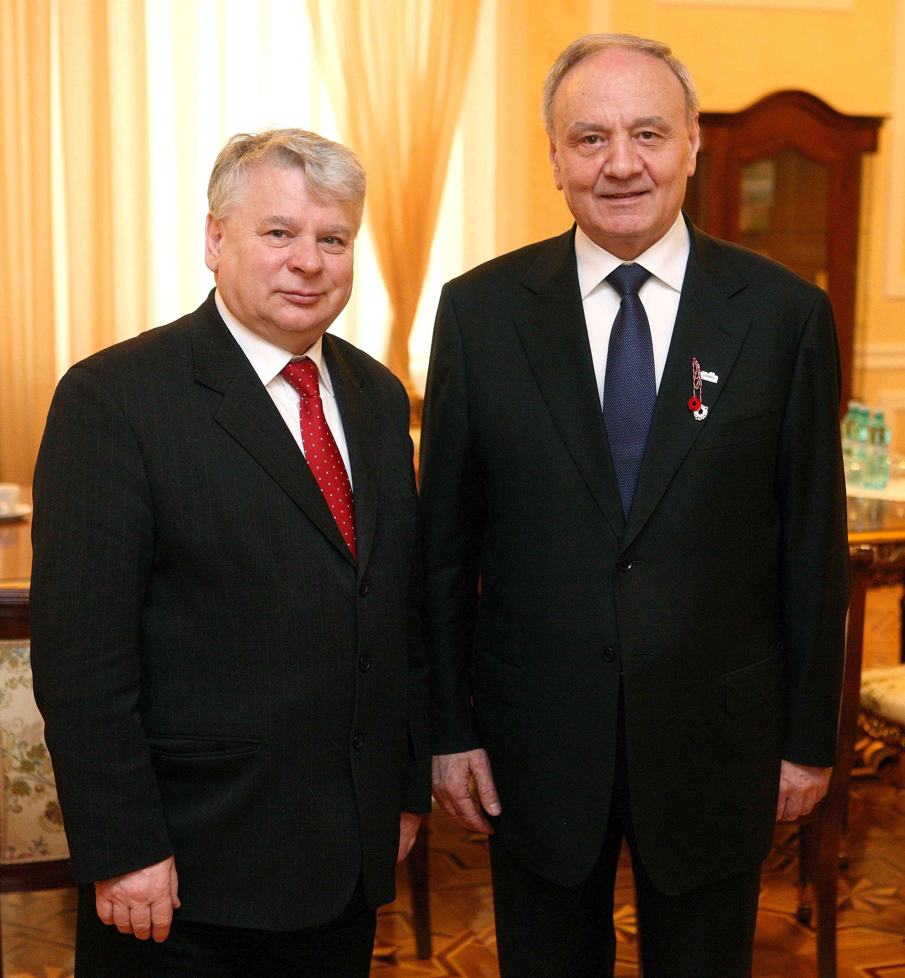 Marshal of the Polish Senate Bogdan Borusewicz and President of Moldova Nicolae Timofti